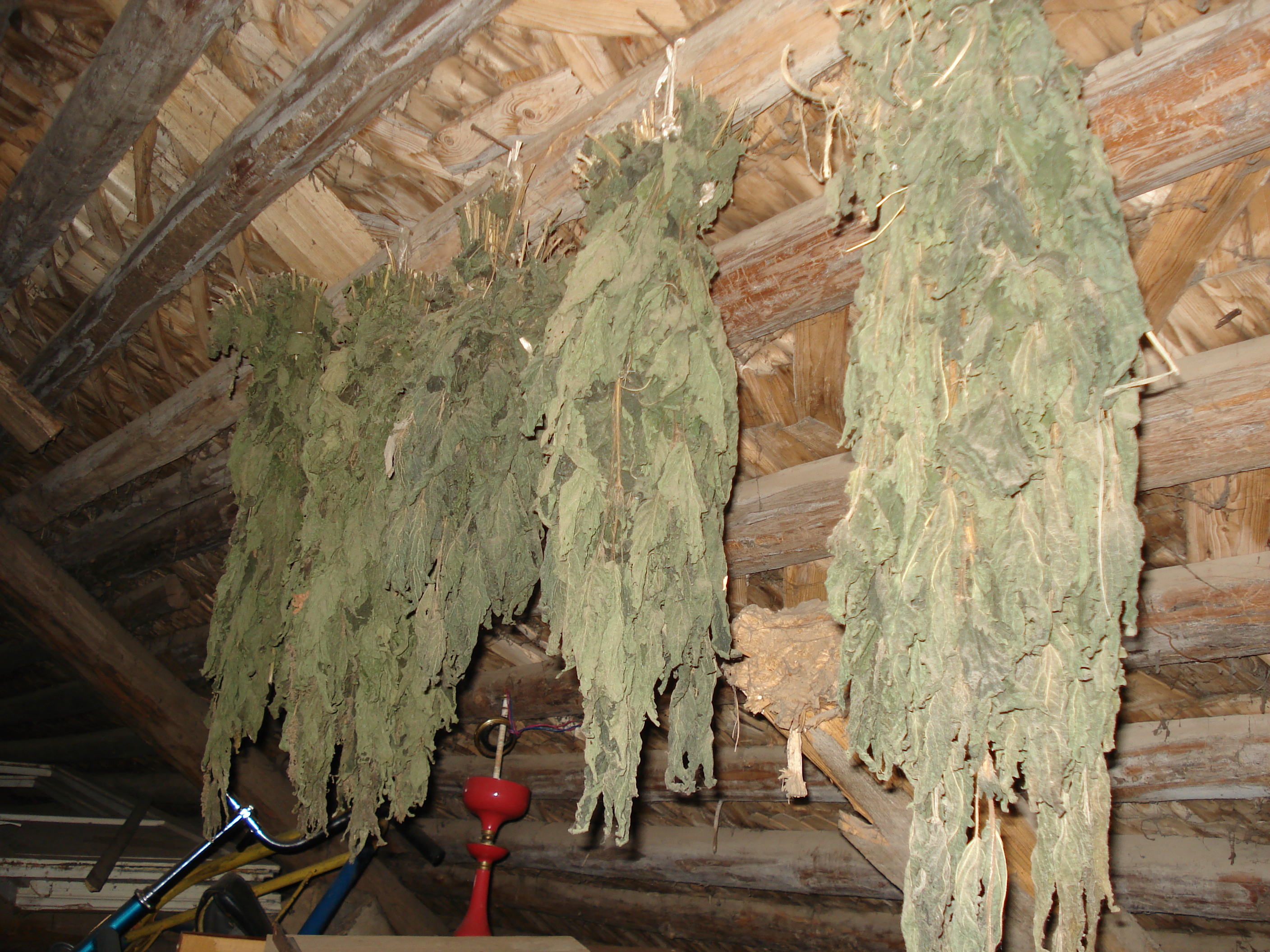 Urtica dioica, dried